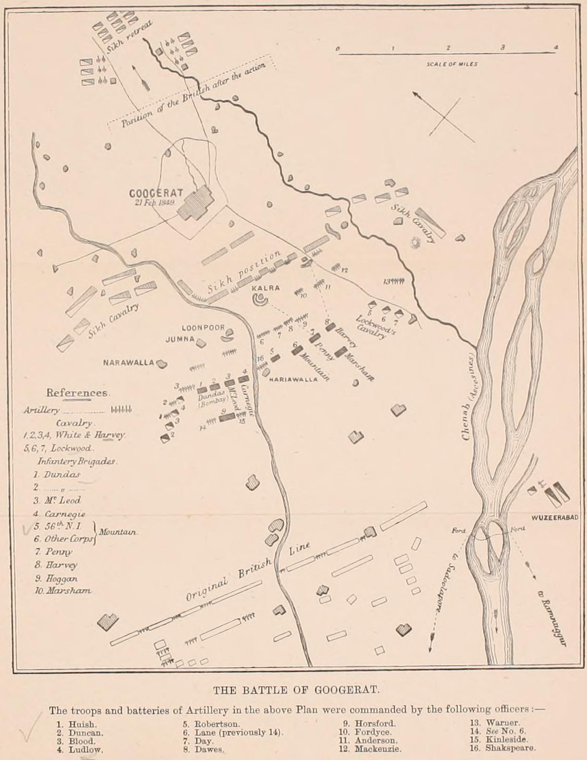 The Battle of Googerat